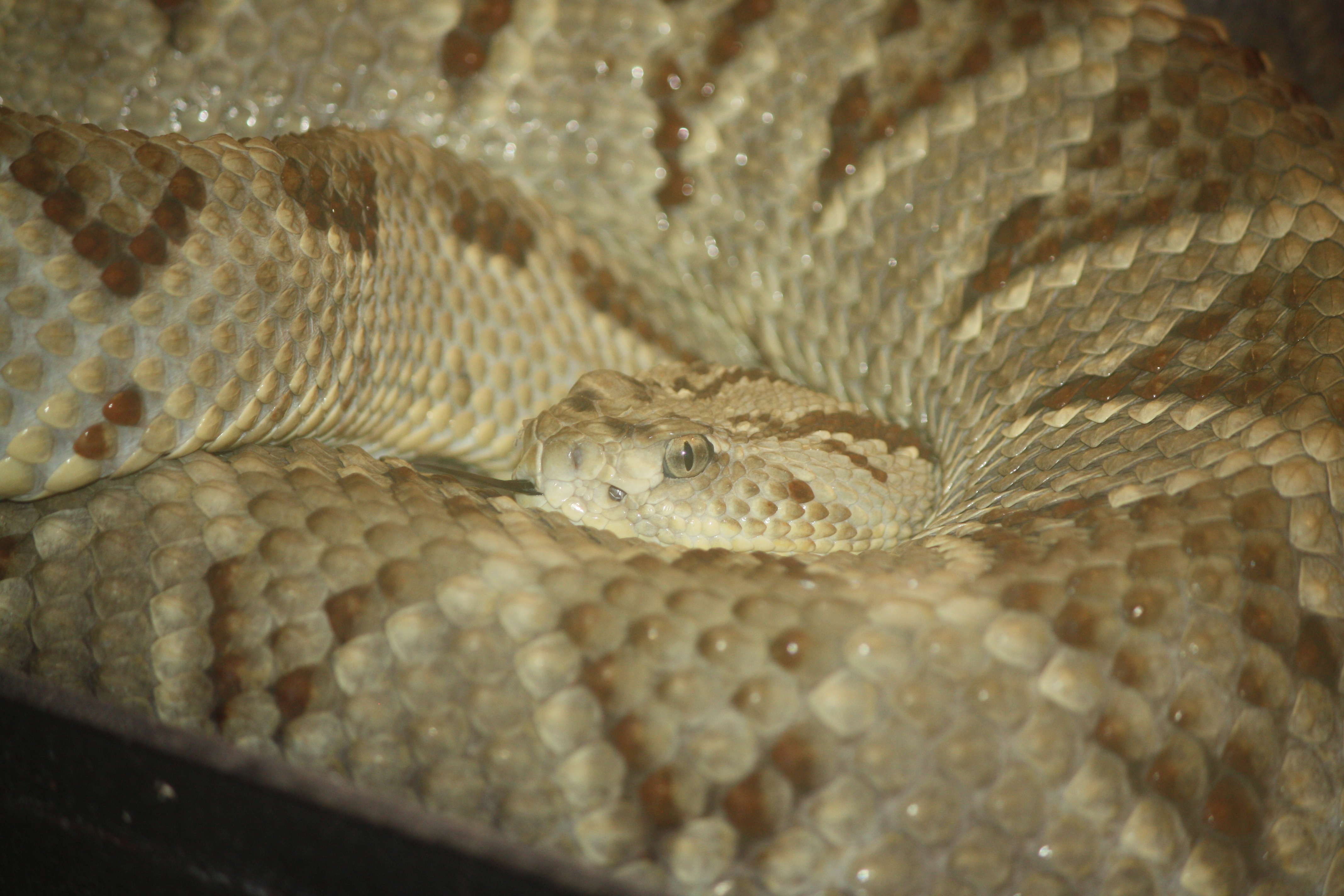 Yucatan Neotropical Rattlesnake (Crotalus simus tzabcan) at Cincinnati Zoo